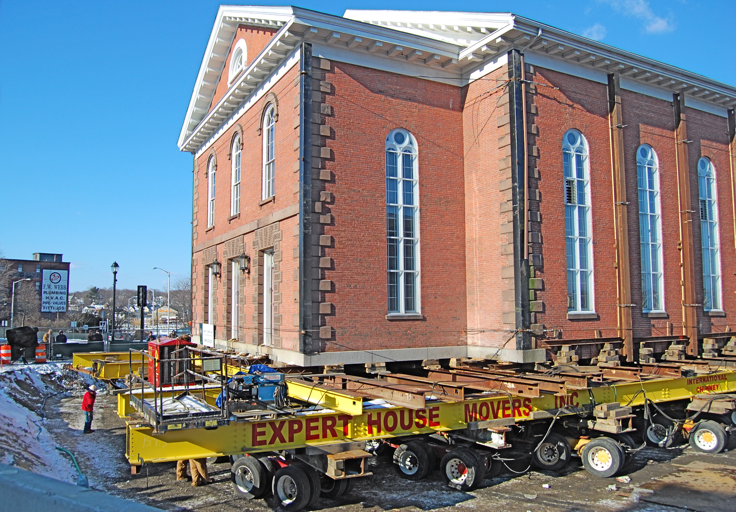 This is a large historical building relocation that occurred in January 2009 in Salem, Massachusetts. The First Baptist Church is being moved a short distance to make way for a new courthouse. Below the I-Beams supporting the church are nearly three dozen hydraulically powered dollies, which do the actual moving. Built in 1806, the church's thin brick walls support the entire weight of the structure; temporary steel bracing is visible on the outside wall. The church is to become a law library for the future courthouse. (Source: The Salem News, January 3, 2009.)